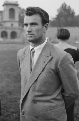 Teseo Taddia before the start of the Milan Athletics Meeting held in Milan in 1950